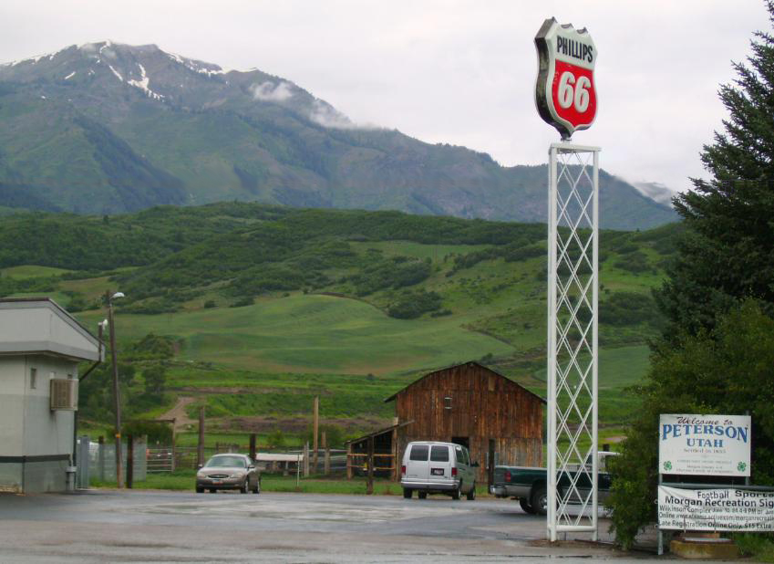 The bustling town of town of Peterson, Utah, in Morgan County